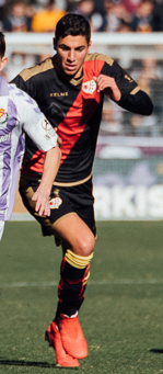 Real Valladolid - Rayo Vallecano, 18th fixture of the 2018-19 La Liga, January 5, 2019.